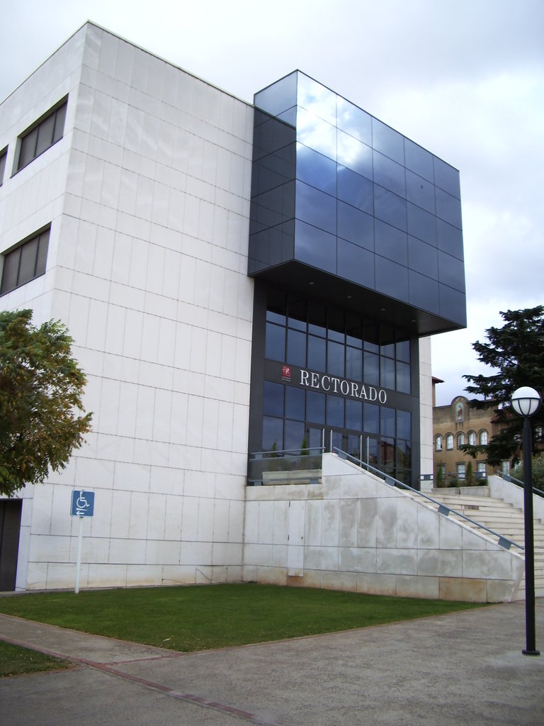 Façade of Rectorado (University Headqarters) of Universidad de La Rioja in Logroño